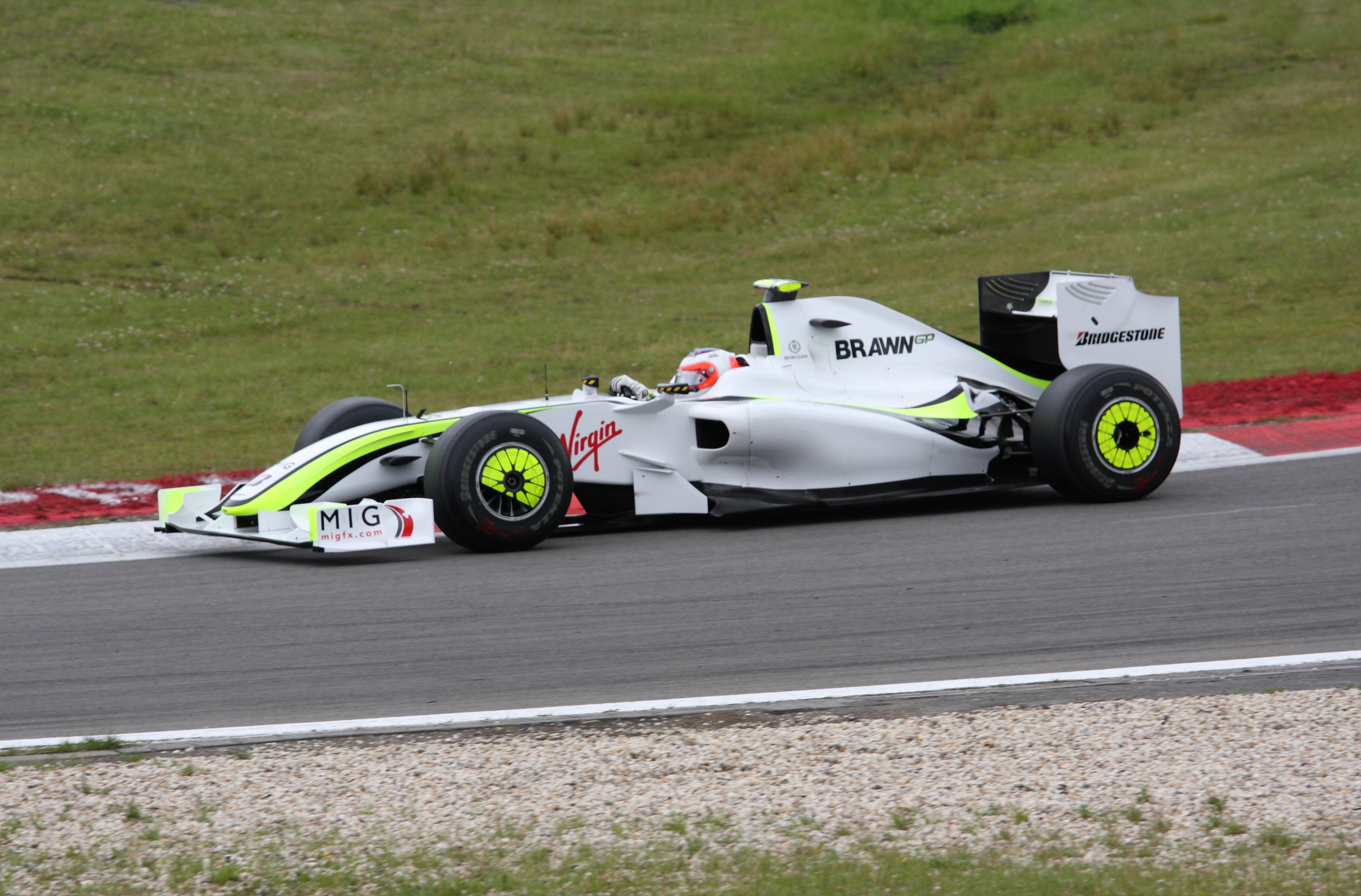 Rubens Barrichello driving for Brawn GP at the 2009 German Grand Prix.